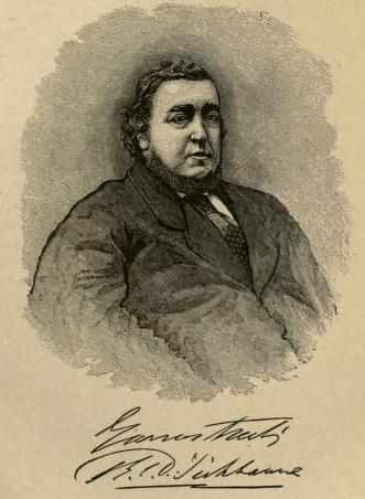 A sketch of the "Tichborne Claimant", otherwise known as Thomas Castro or Arthur Orton